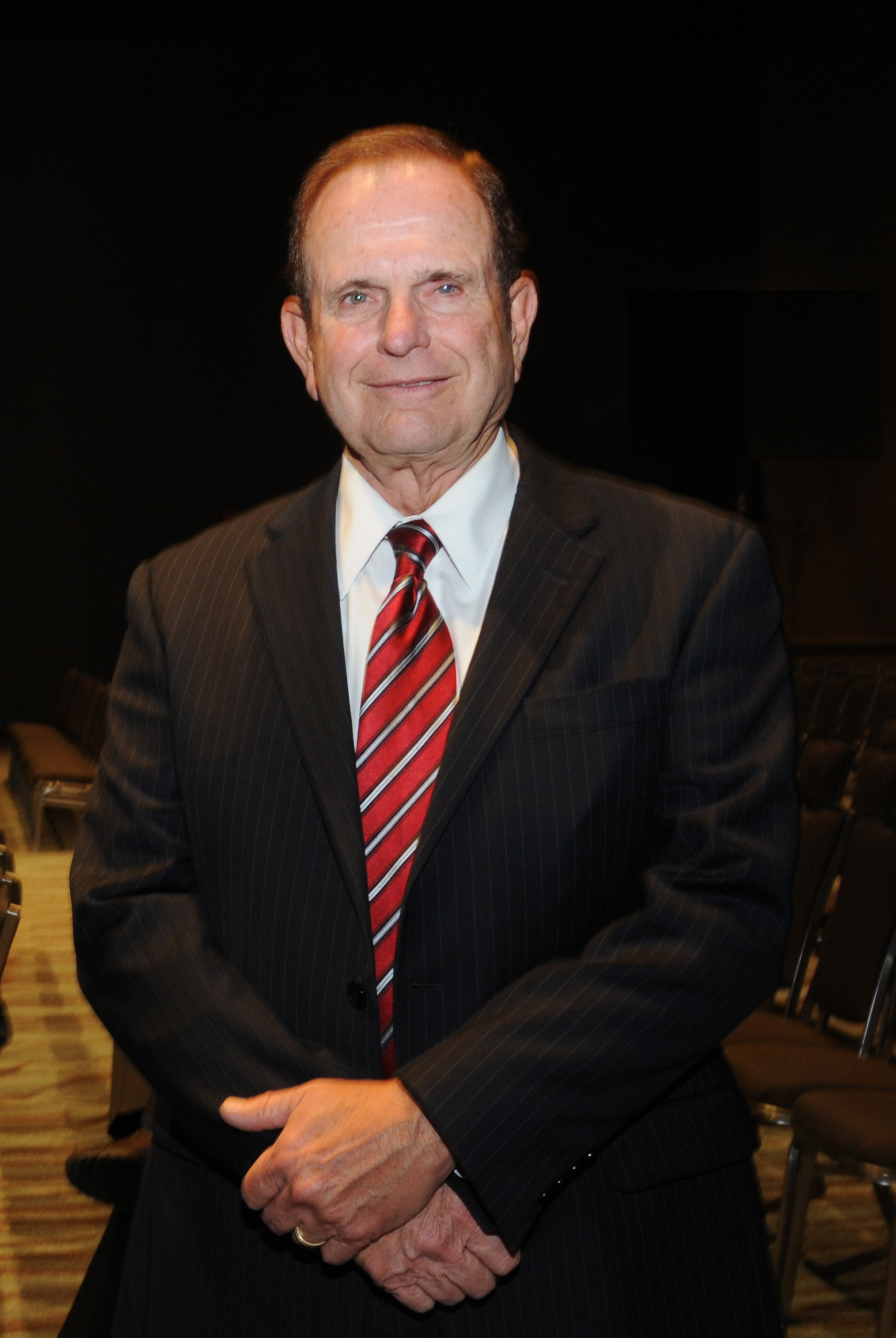 Photograph of A. Blaine Bowman, recipient of the 2015 Pittcon Heritage Award, jointly sponsored by the Pittsburgh Conference on Analytical Chemistry and Applied Spectroscopy (Pittcon) and the Chemical Heritage Foundation.